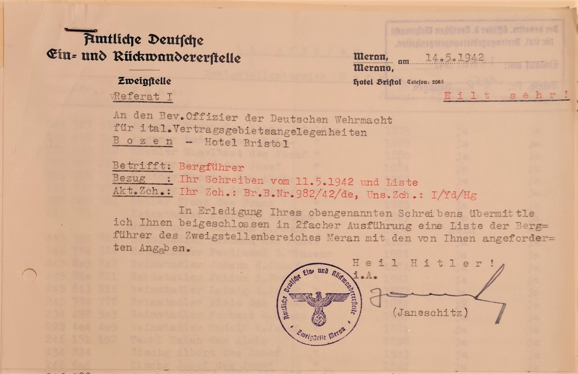 Official Note of the Nazi South Tyrolean ADERSt Organisation from 1942 (Meran-Merano)